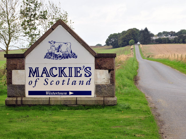 Mackies Ice-cream farm Mackies ice cream is made at Westertown farm, to the right of this sign.